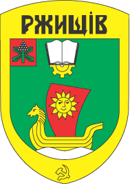 Soviet Era Coat of Arms for Ukrainian town Rzhyschiv in Kiev Oblast (province)